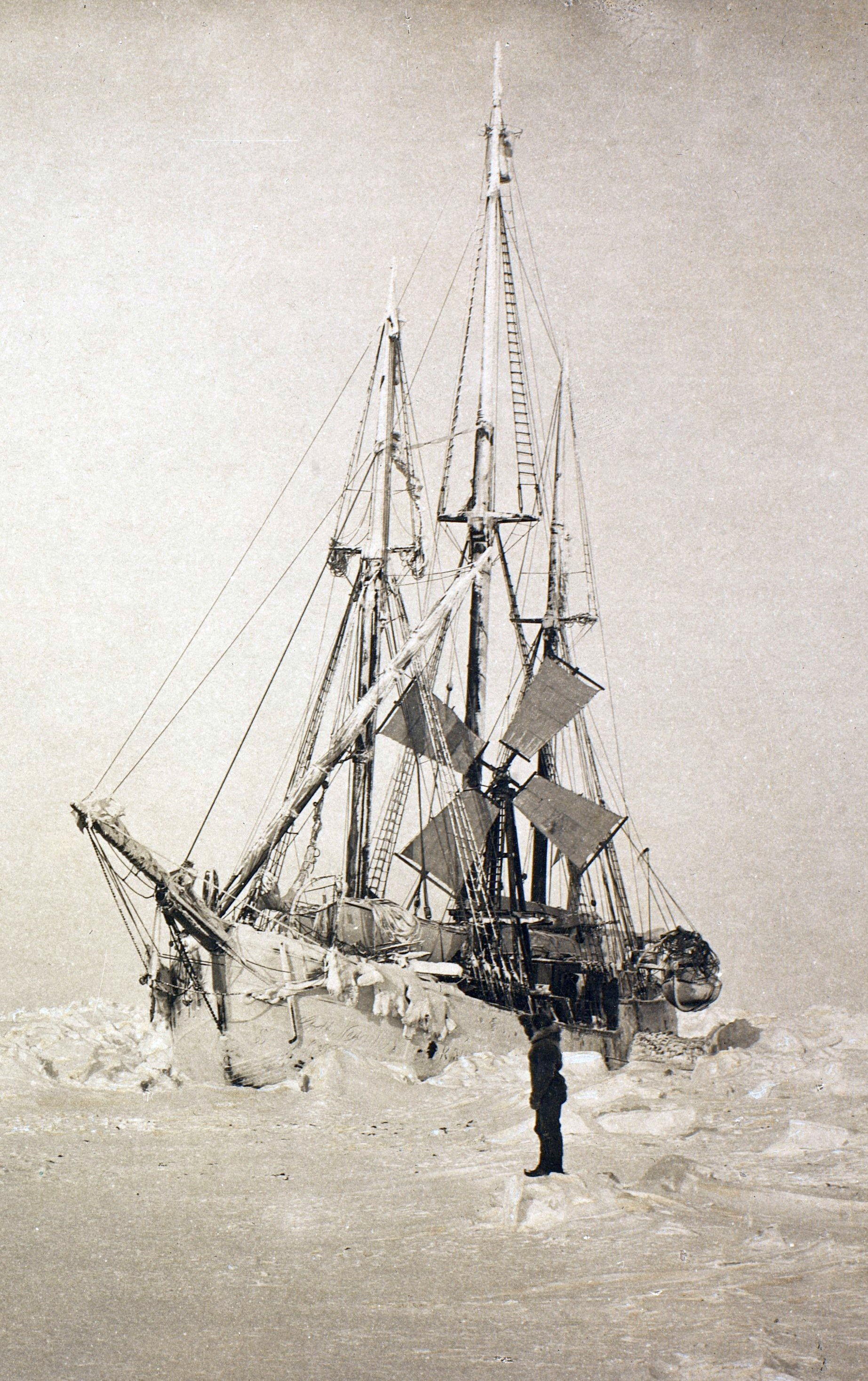 From a photograph: Nansen's ship Fram beset in the Arctic ice, March 1894